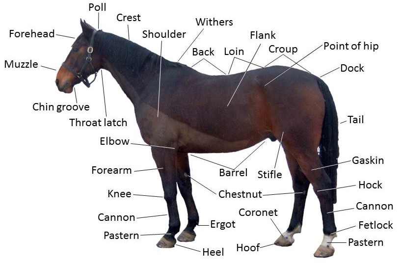 English Trakehner gelding, Sybari in standing pose, marked with major points of the horse. Foaled in 2001, picture taken in 2010 (aged 9). Annotated with major morphological points sourced from Goody, John (2000) Horse Anatomy (2nd ed.), J A Allen ISBN: 0.85131.769.3. and (2007) Complete Equine Veterinary Manual, David & Charles ISBN: 0.7153.1883.7.